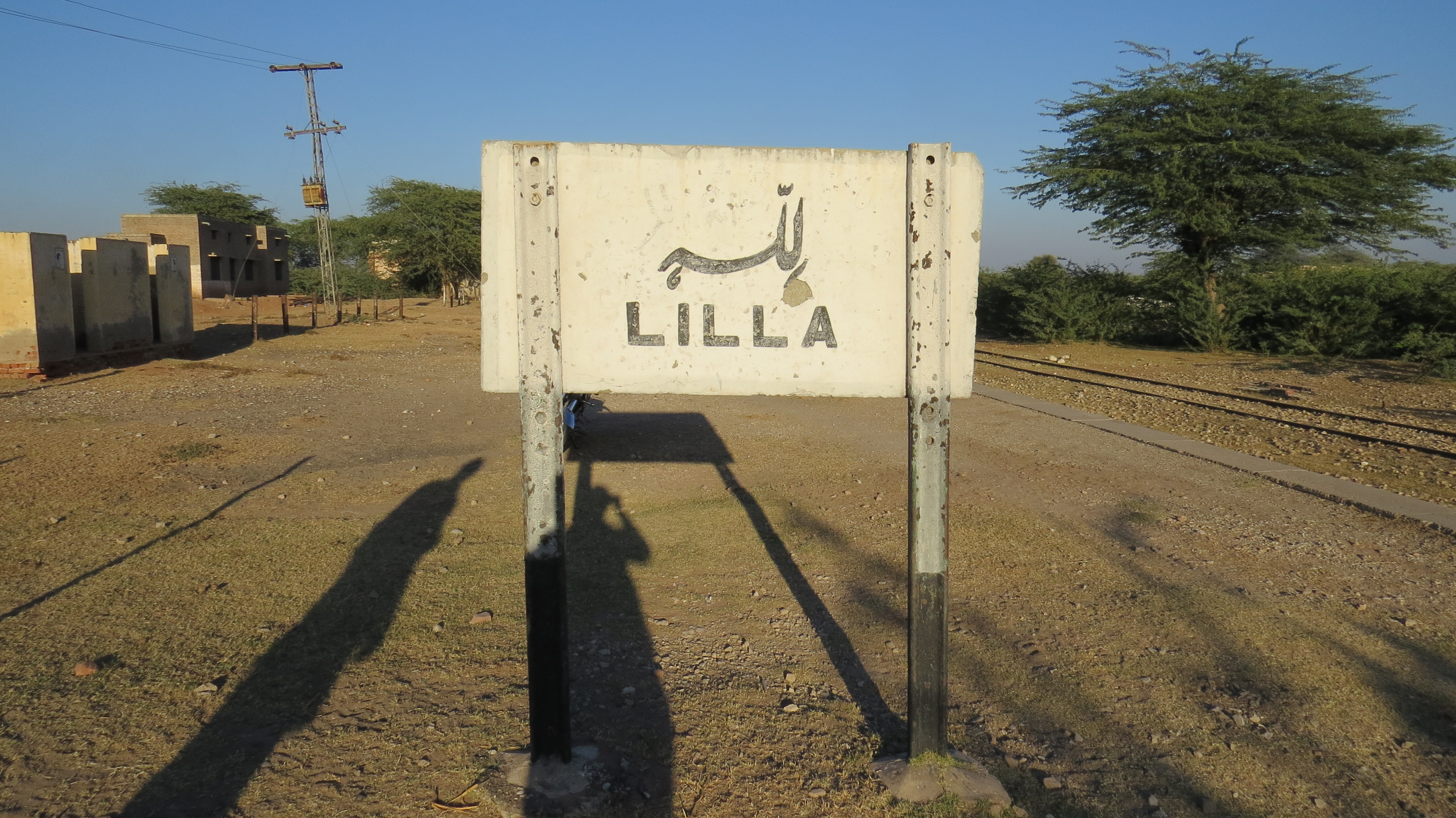 Lilla Town